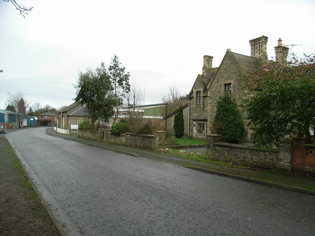 Former railway station, Kington The building on the right was originally the terminus station of the Kington and Eardisley Railway. When the New Radnor Extension Railway was built a new station was also built, following the re-alignment. This new alignment ran approximately to the left of the road.